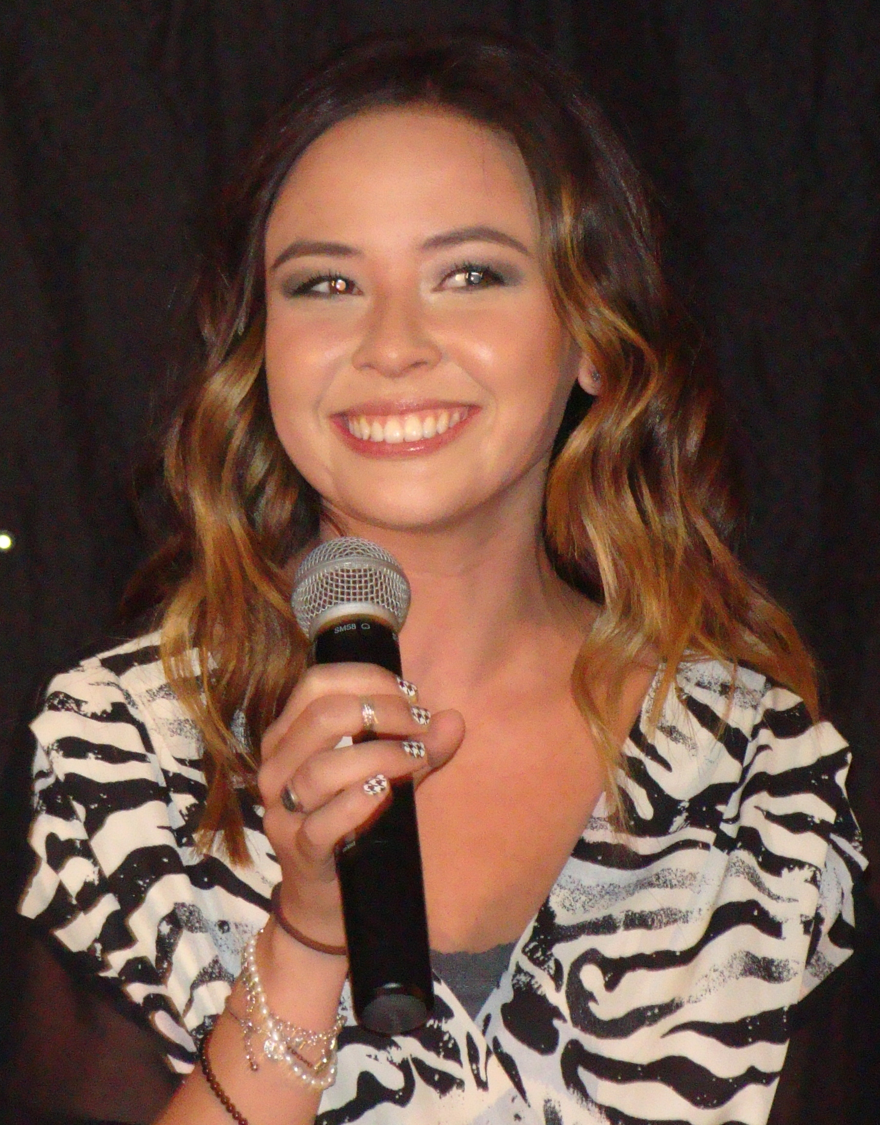 Interview with Malese Jow from The Vampire Diaries in June 2012.